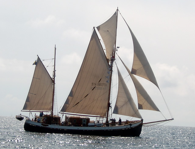 Image of the sailing yacht T/S Britta, taken at Nordisk Seglats 2004.